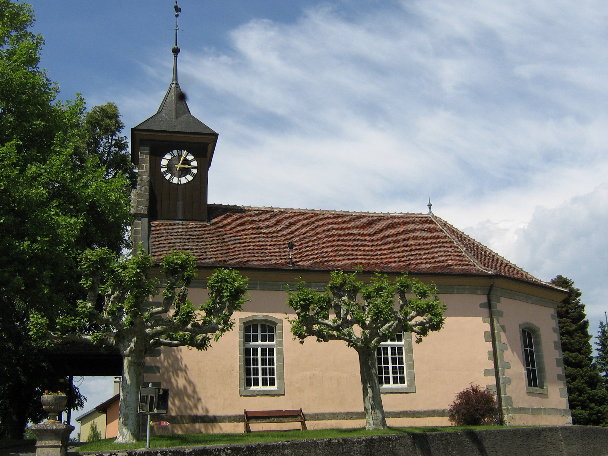 Temple of Corcelles-sur-Chavornay.